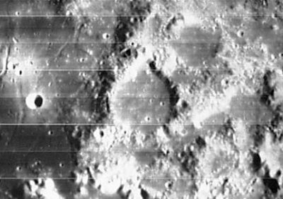 LOIV 078 H3 Littrow is the crater in the center. The 6-km circular crater on the far left is Clerke. To its upper left is the set of small craters known as Catena Littrow, and near both, the system of rilles known as Rimae Littrow. The 23-km depression to the upper right of Littrow is Littrow A.